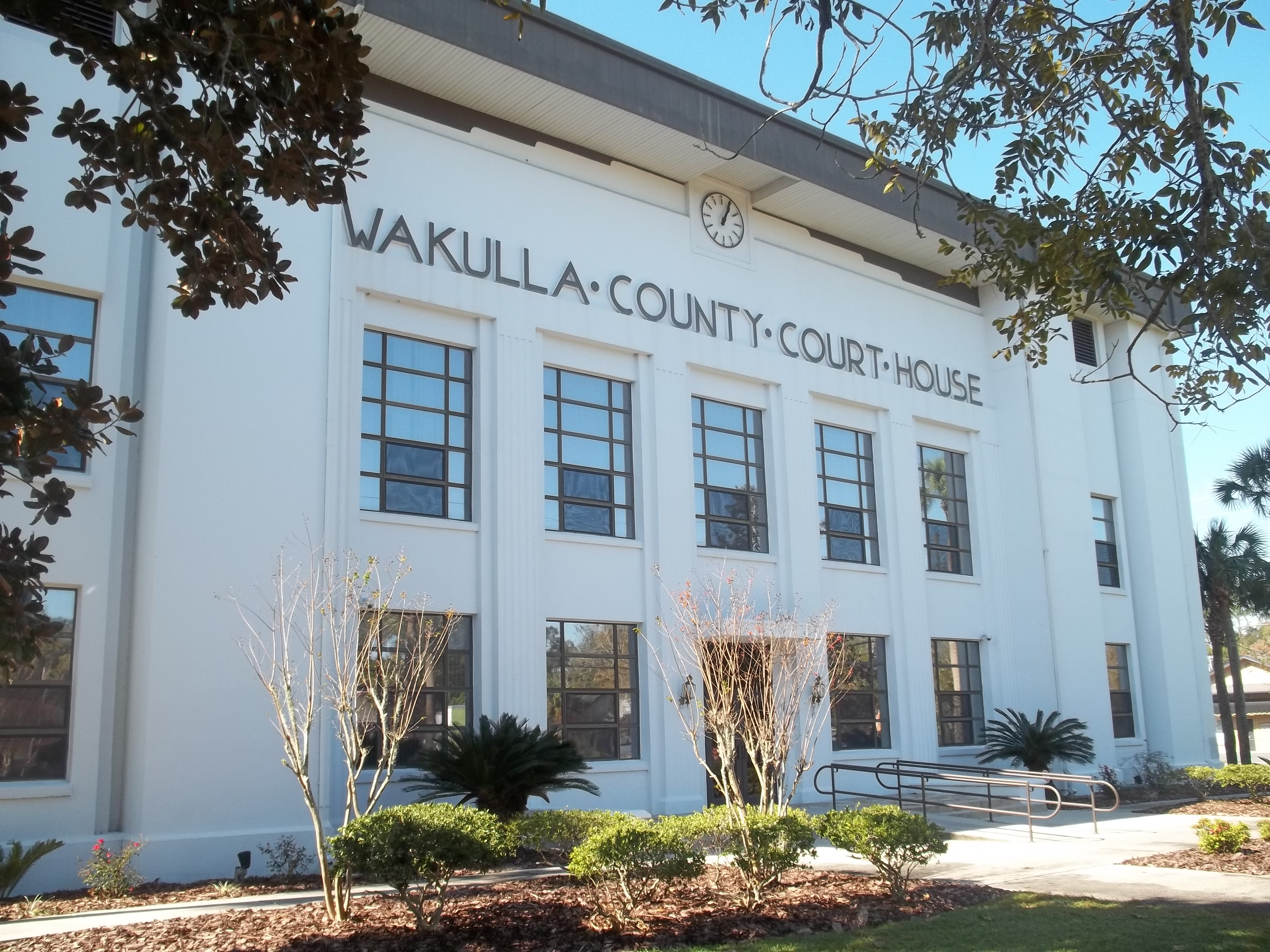 Crawfordville, Florida: Current courthouse